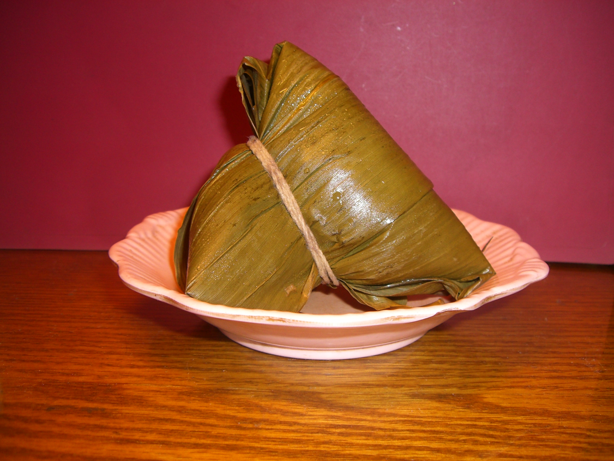 Zongzi. Chinese food for the dragon boat festival.